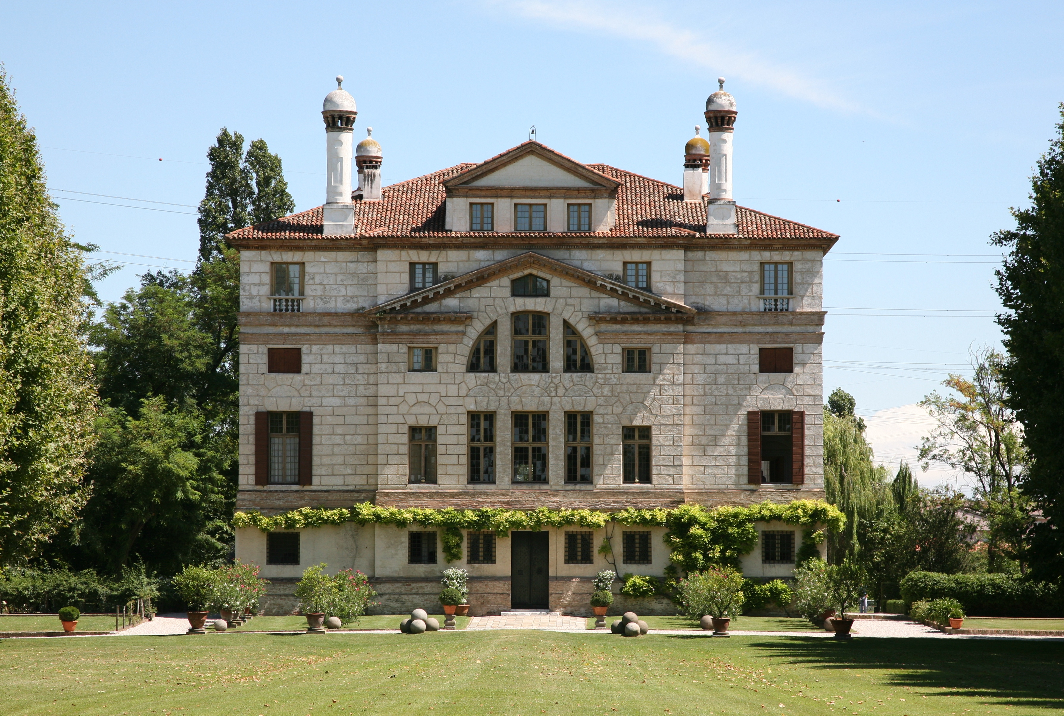 Villa Foscari, also called La Malcontenta. Villa near Venezia by Andrea Palladio. Rear of the building.